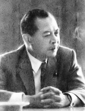 Eki Sone